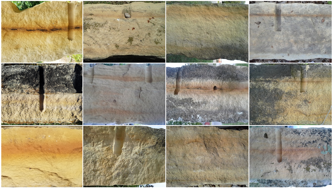 Fencepost limestone collage.